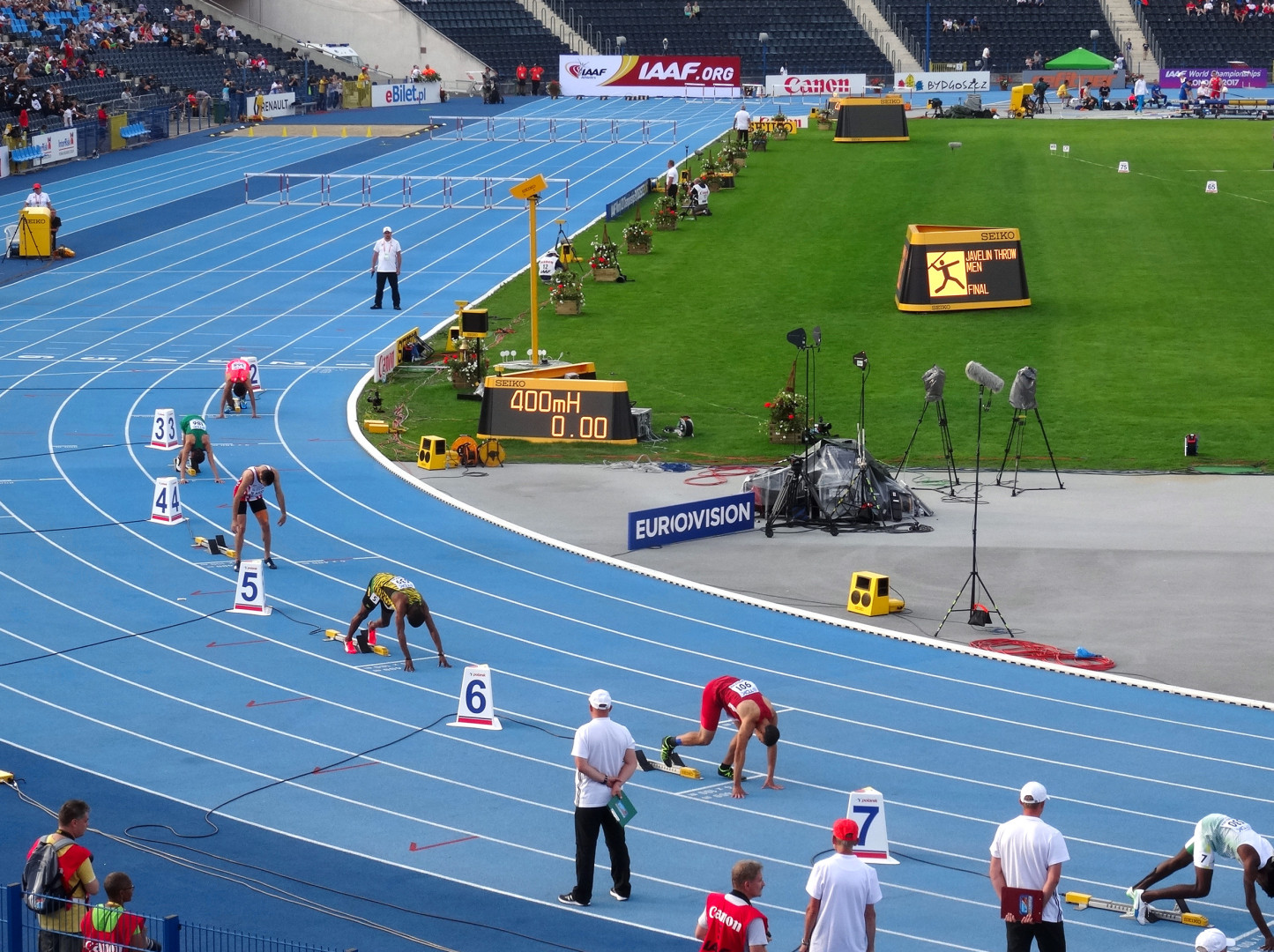 2016 IAAF World U20 Championships in Bydgoszcz, 400m hurdles men final